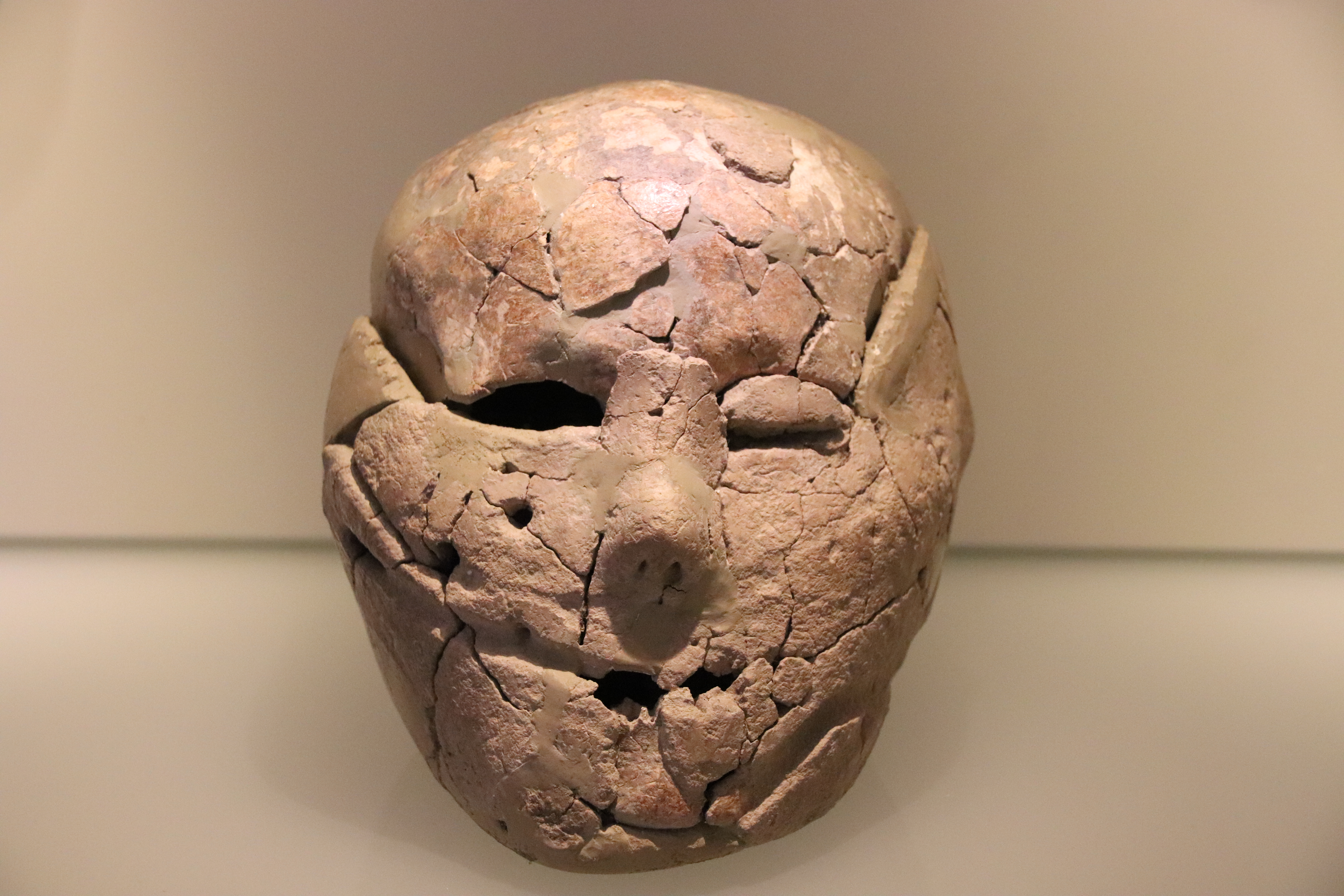 Plastered Skull, c. 9000 BC Israel Museum, Jerusalem, Israel. Complete indexed photo collection at .